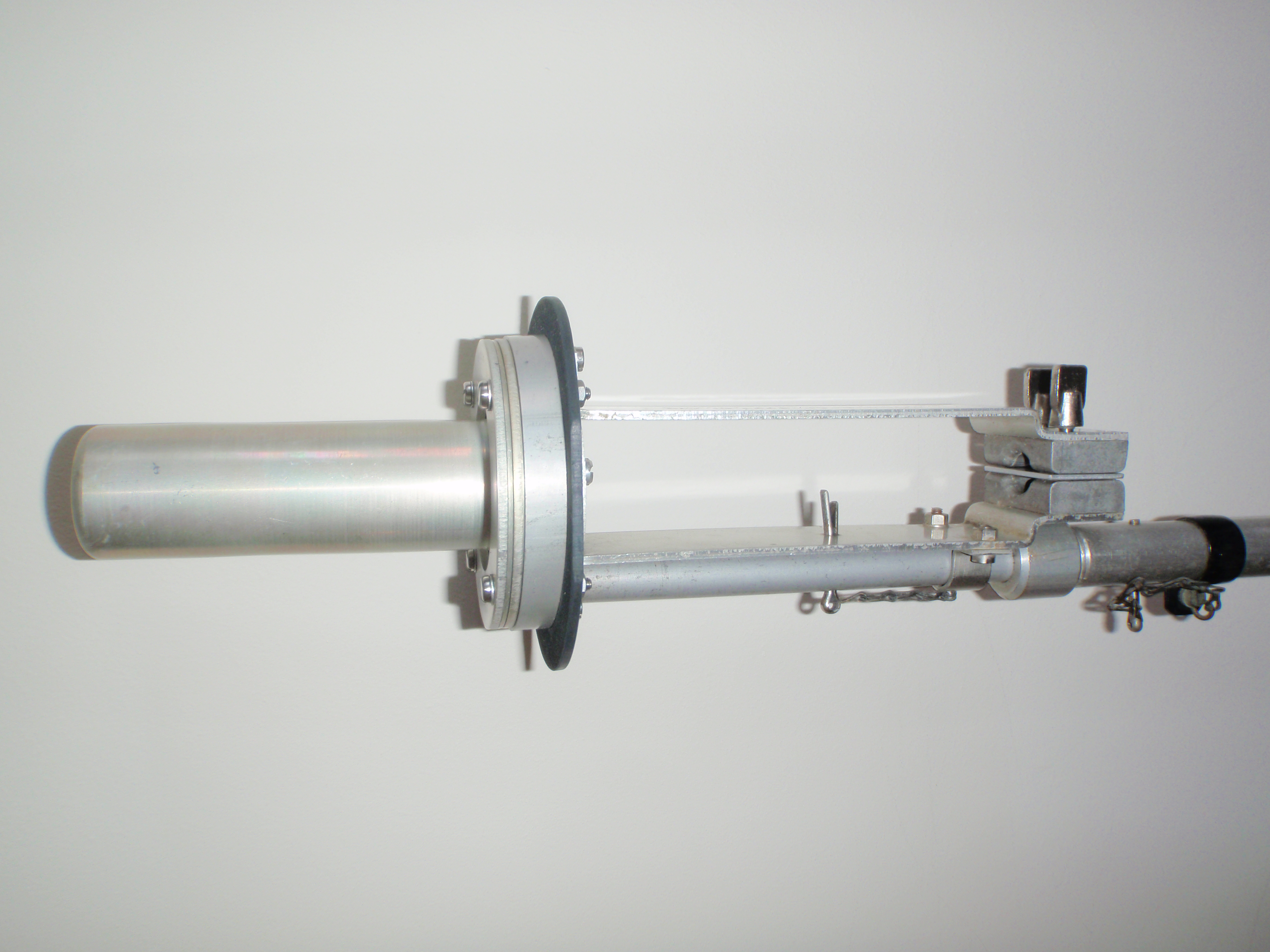 Photo showing the PDRM82F probe mounted on telescopic rod.